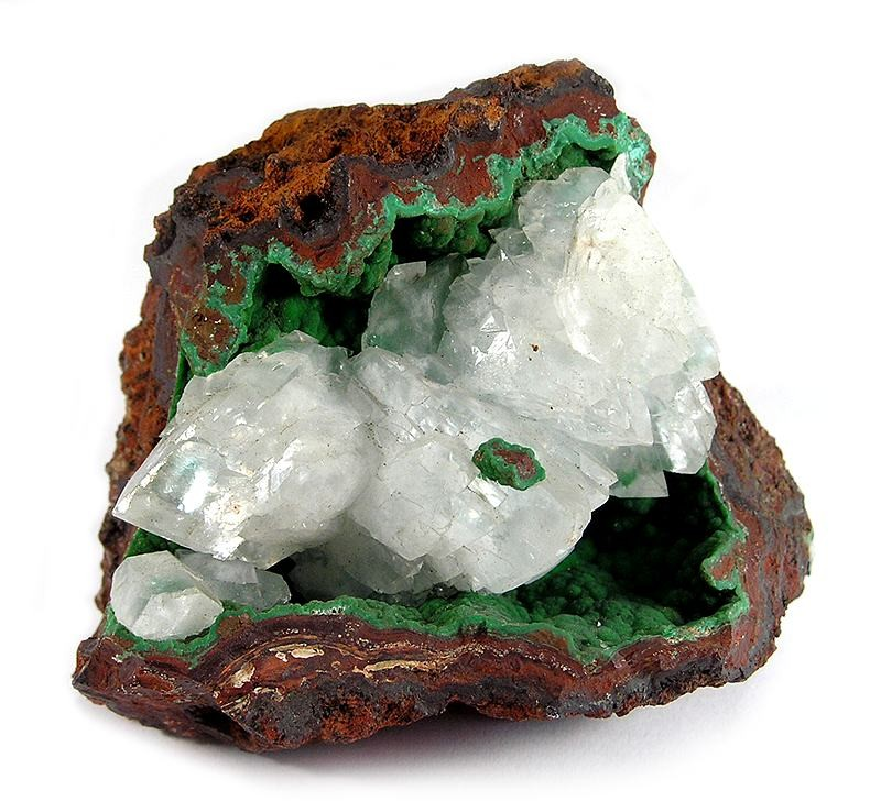 Conichalcite, Calcite Locality: Ojuela Mine, Mapimí, Municipio de Mapimí, Durango, Mexico (Locality at ) A vug in the limonite matrix is the host for a layer of rich green, almost velvety, botryoids of conichalcite, to .5 cm across. This is a calcium, copper, arsenate. Secondary growth of colorless, lustrous, translucent, rhombs of calcite, to 2.0 cm across, has nearly filled up the remaining space in the vug. Good combo and super color contrast! 6.5 x 5.5 x 5.4 cm